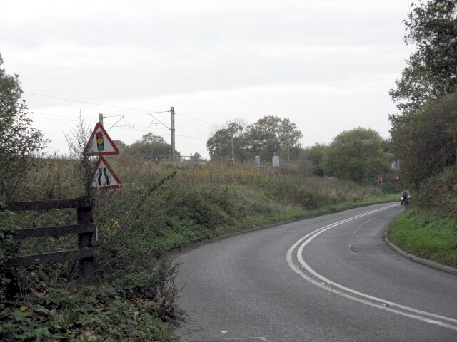 A535 road, approaching Corbishley Bridge, near Chelford, Cheshire.